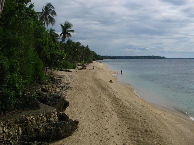 Antulang beach resort, Siaton, Negros Oriental, PH